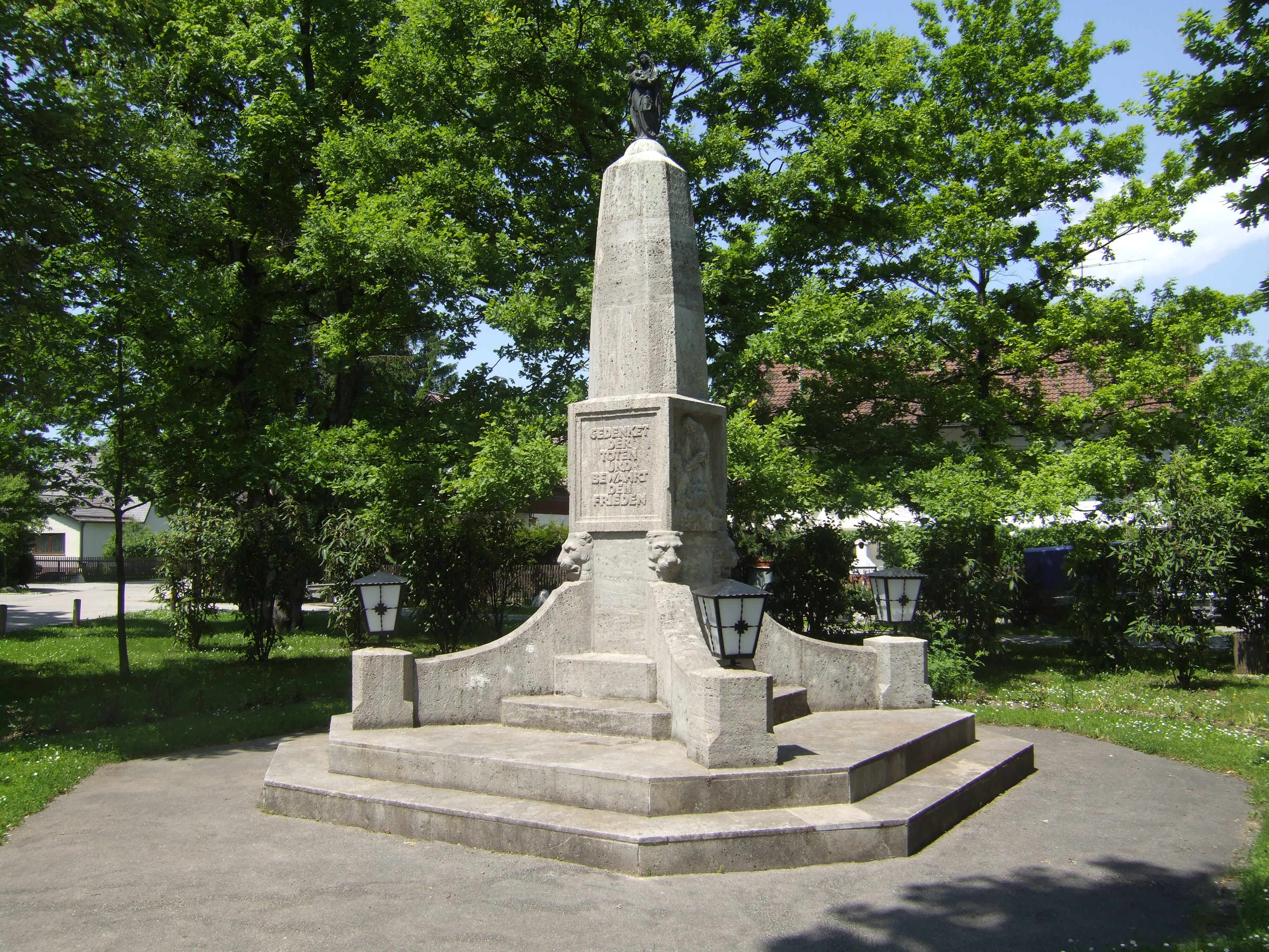 Unterhaching: War Memorial